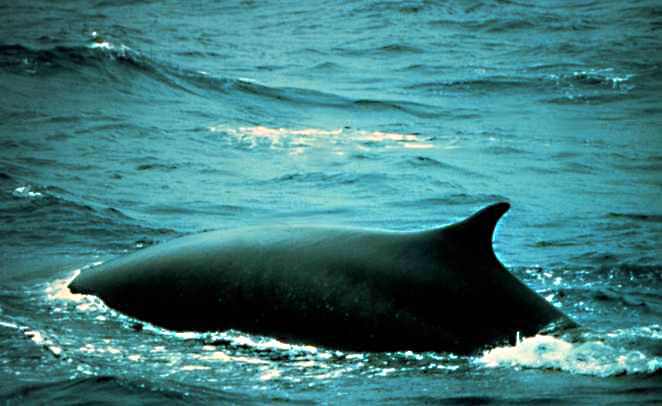 Fin whale